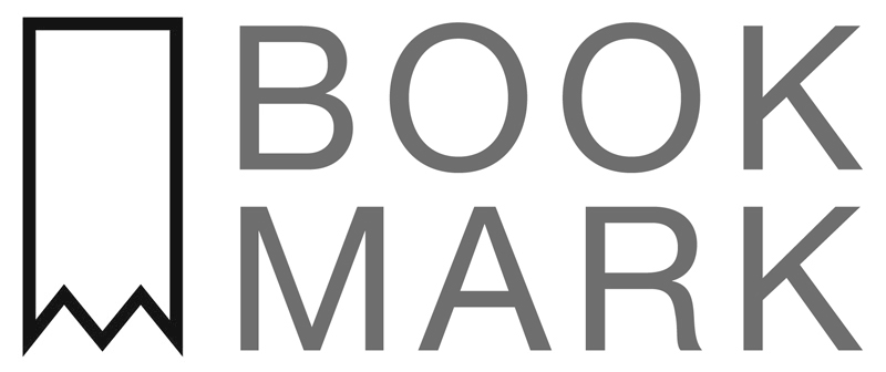 Bookmark Förlag logo